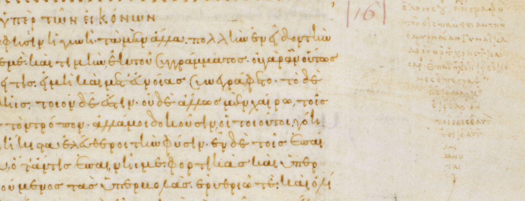 An image from Harley MS 5694. a codex from the British Library's Digitalised Manuscript Collection. It shows a comment on Lucian of Samosata attributed to Arethas of Caesarea (c.900). Arethas' are the earliest direct references to the work of Marcus Aurelius commonly known as "Meditions". Or, as Arethas calls it, his writing "to himself" (εις εαυτον ΄Ηθικοις).